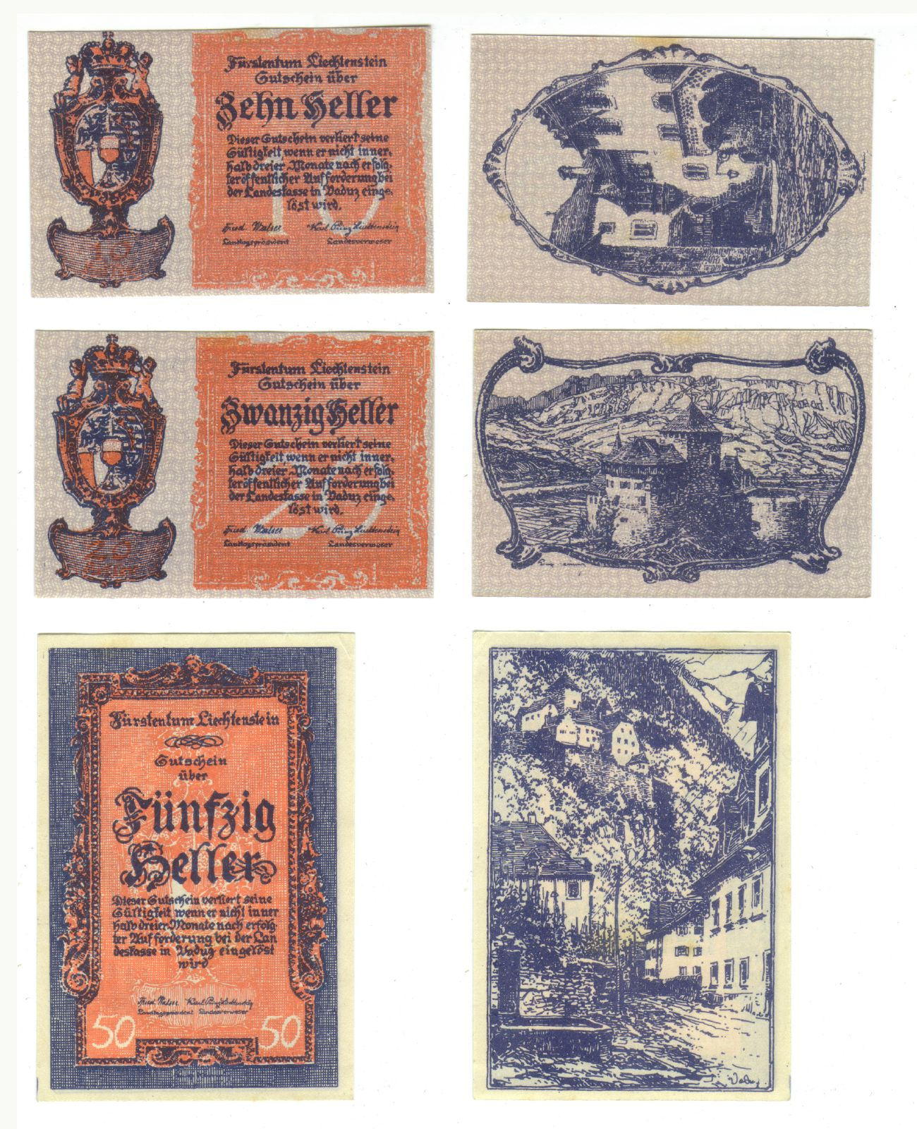 Emergency money (Notgeld) issued by the Principality of Liechtenstein in 1920. The units are 10, 20, and 50 Heller.